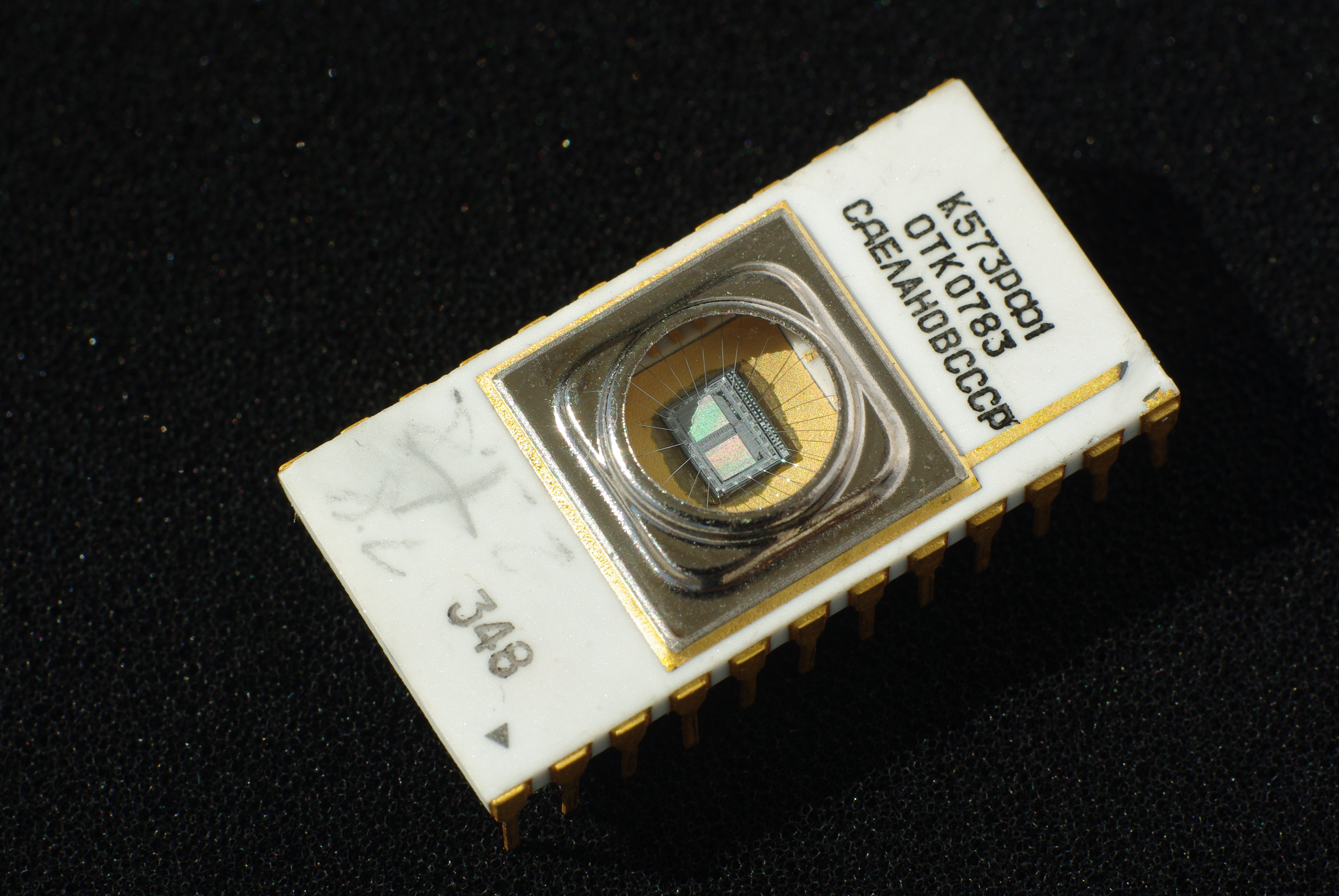 USSR EPROM K573RF1, equivalent to 2708